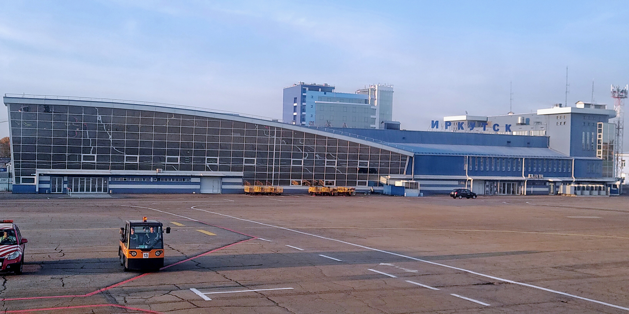 Irkutsk airport terminal and apron